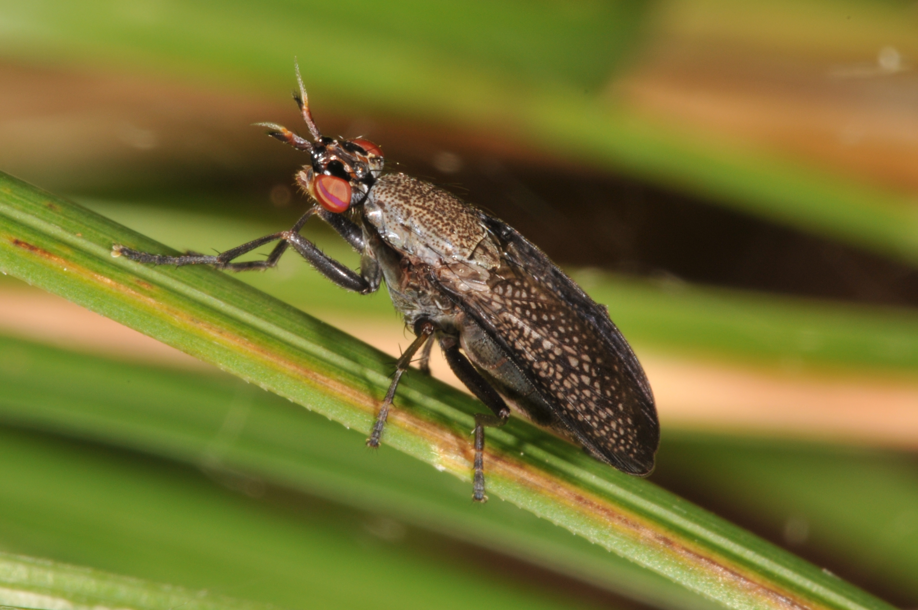 Sciomyzidae (Coremacera marginata ?), Croatia, Istria, Brseč 15 km south Lovran, 45°10`23,80``N 14°13`37,25``E